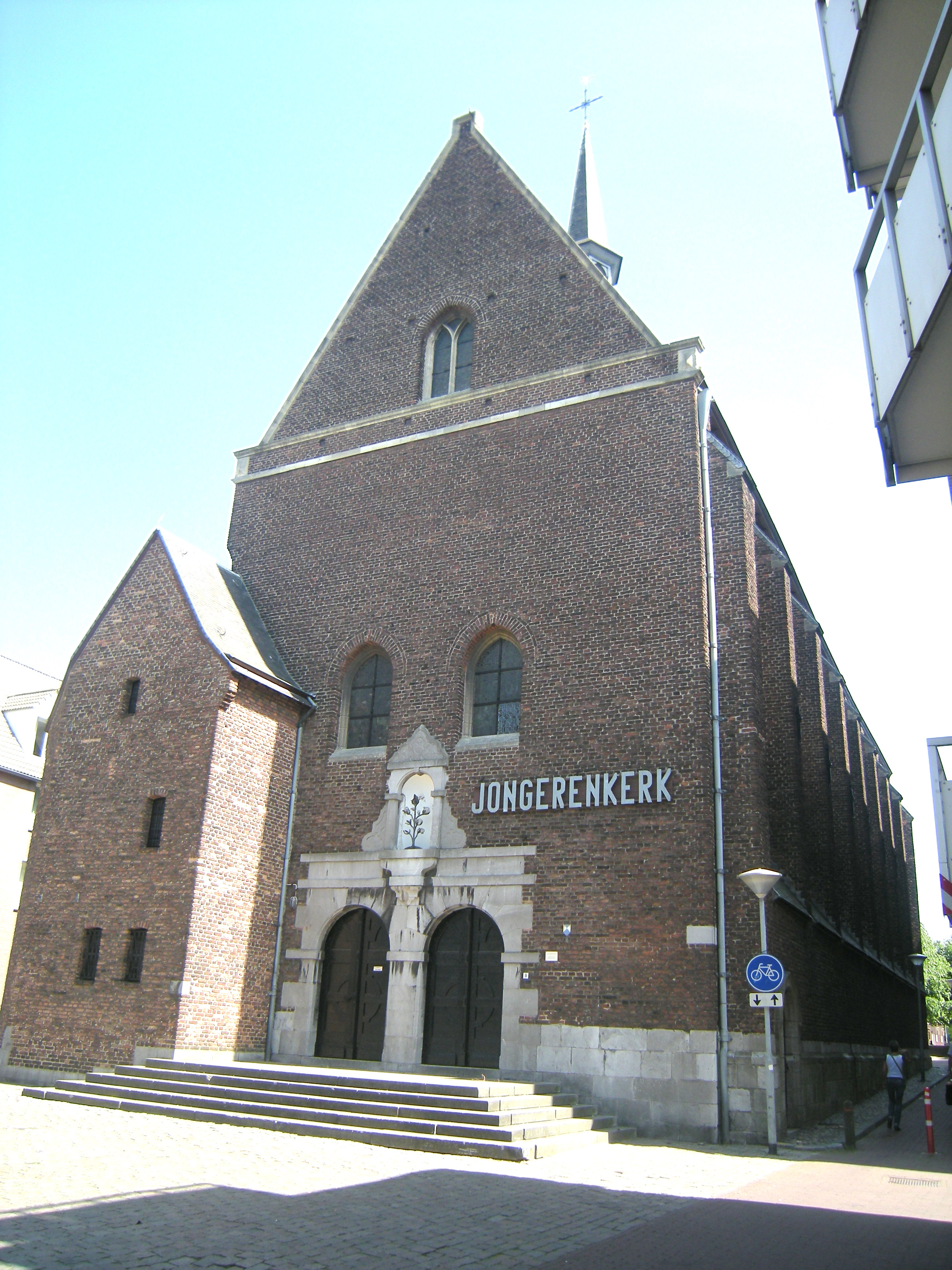 Youth Church Venlo